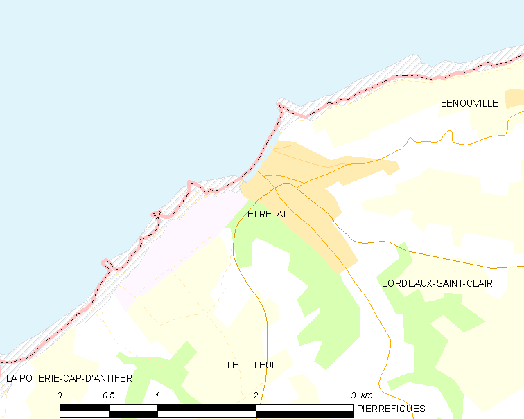 Map of French municipality Étretat